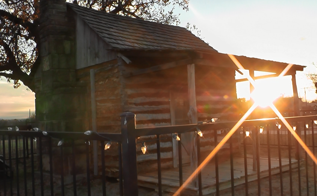 Log Cabin in Bryson Texas